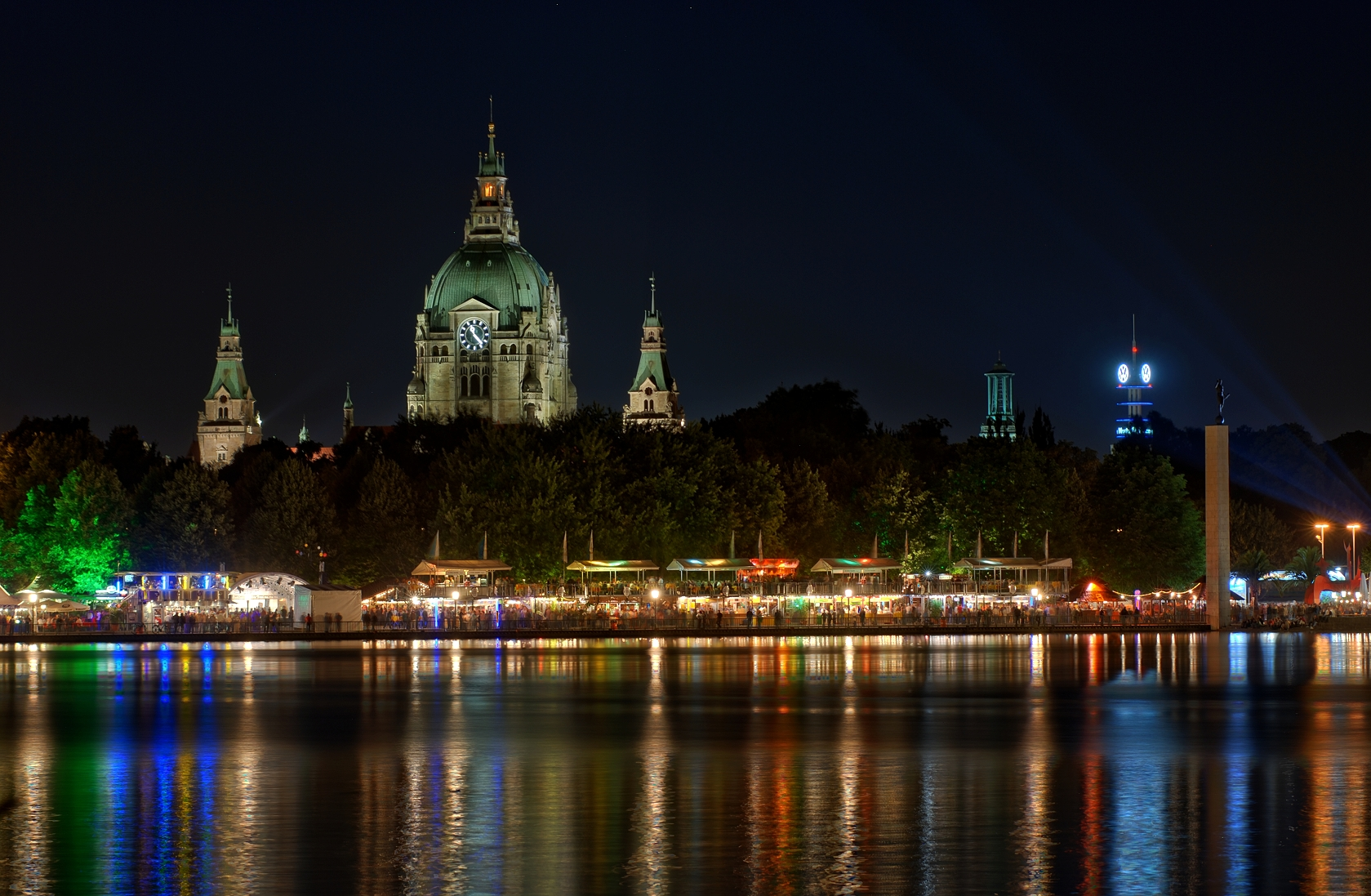 Maschseefest, northern shore, townhall, Aegidienchurch, radiotower, DRI, HDR